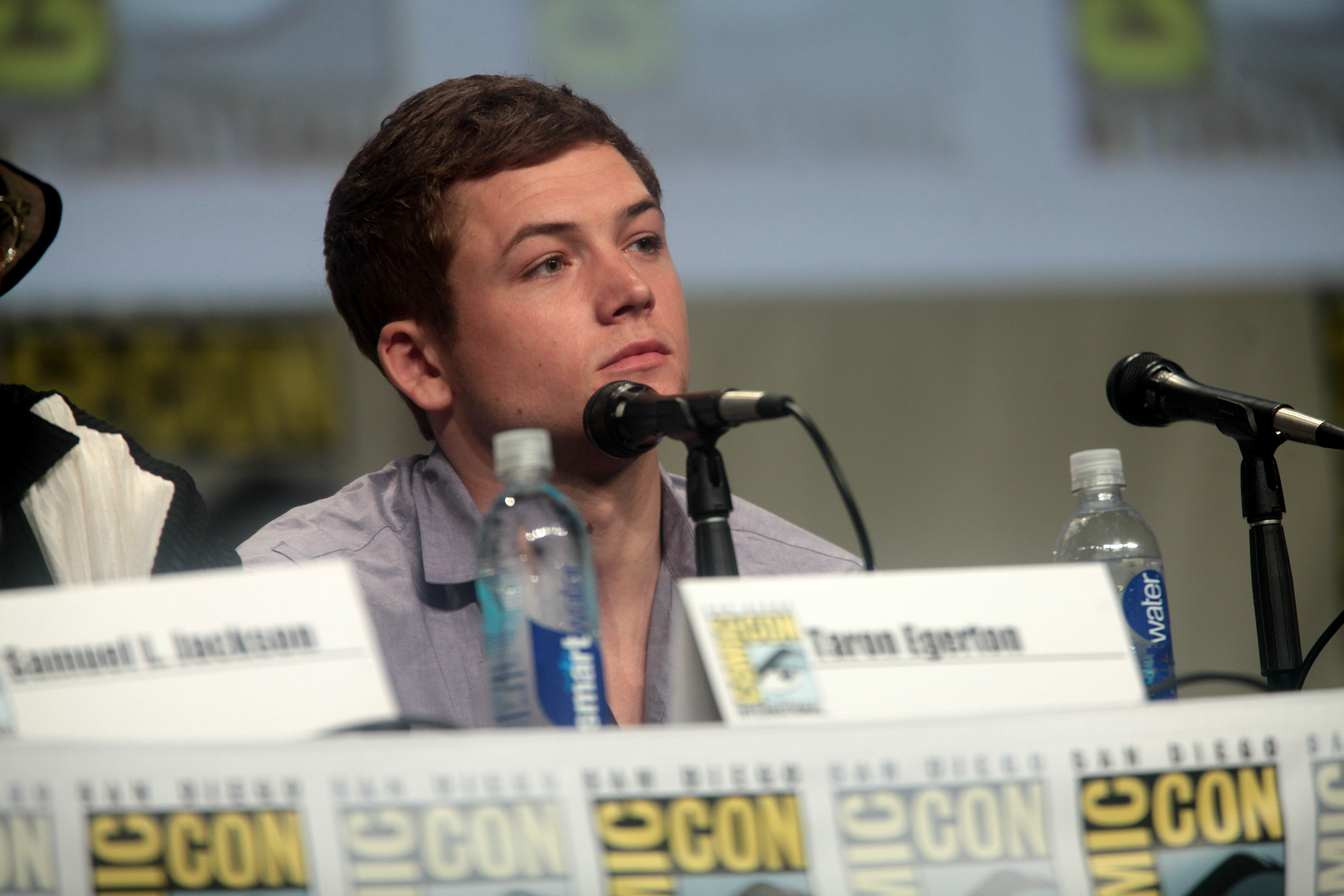 Taron Egerton speaking at the 2014 San Diego Comic-Con International, for Kingsman: The Secret Service (2014), at the San Diego Convention Center in San Diego, California.